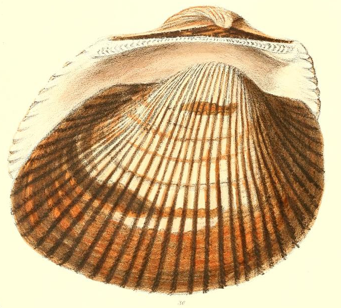 Anadara broughtonii (Schrenck, 1867), Arcidae, Bivalvia, Iloilo, Panay, Philippines, from Reeve 1944, Conch. Icon. pl. 5 fig. 30 (= Arca inflata Reeve, 1844 non Arca inflata Brocchi, 1814)